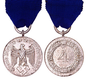 Wehrmacht 4 year long service award